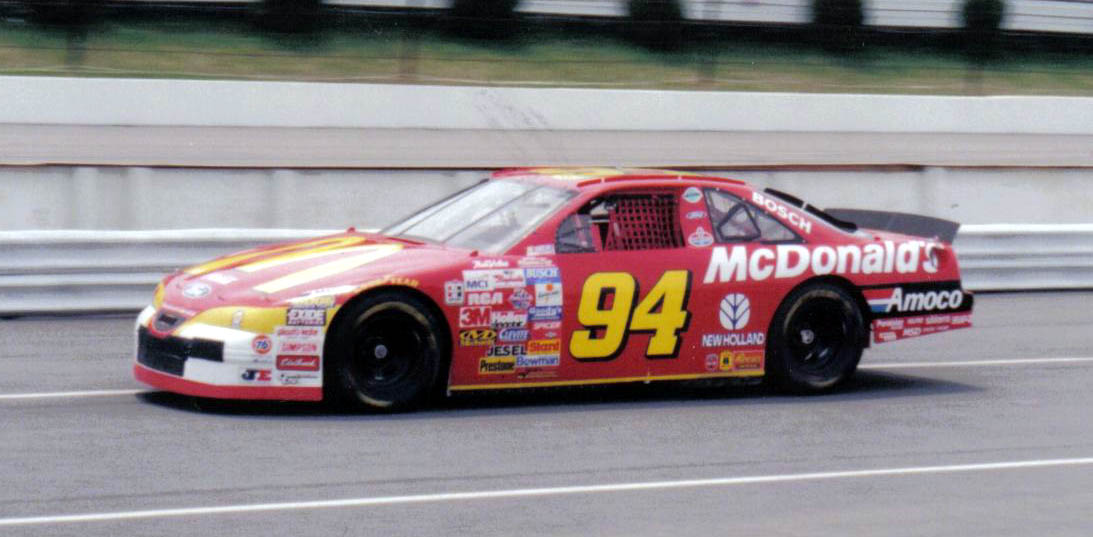 former NASCAR champion Bill Elliott in 1997 at Pocono.